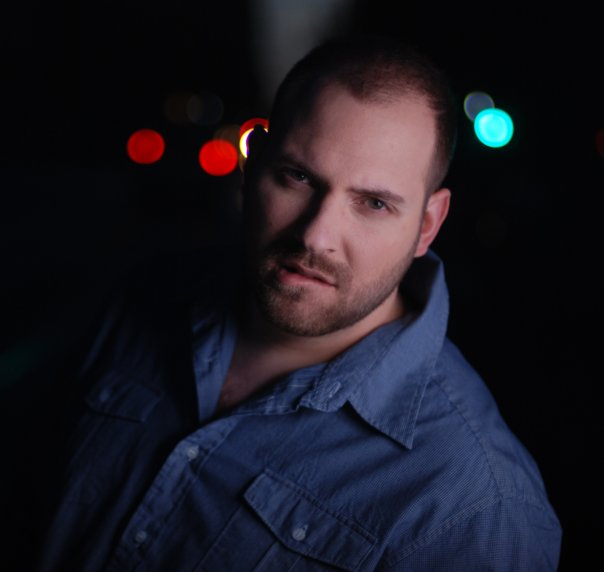 Promotional photography for LoOney